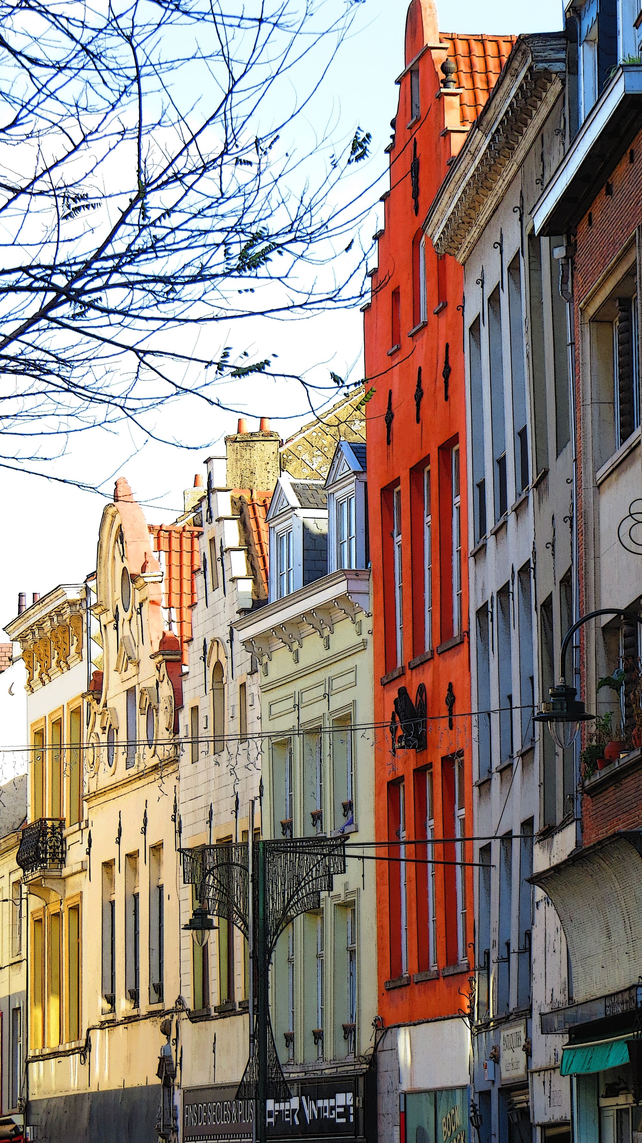 Houses in the City Center